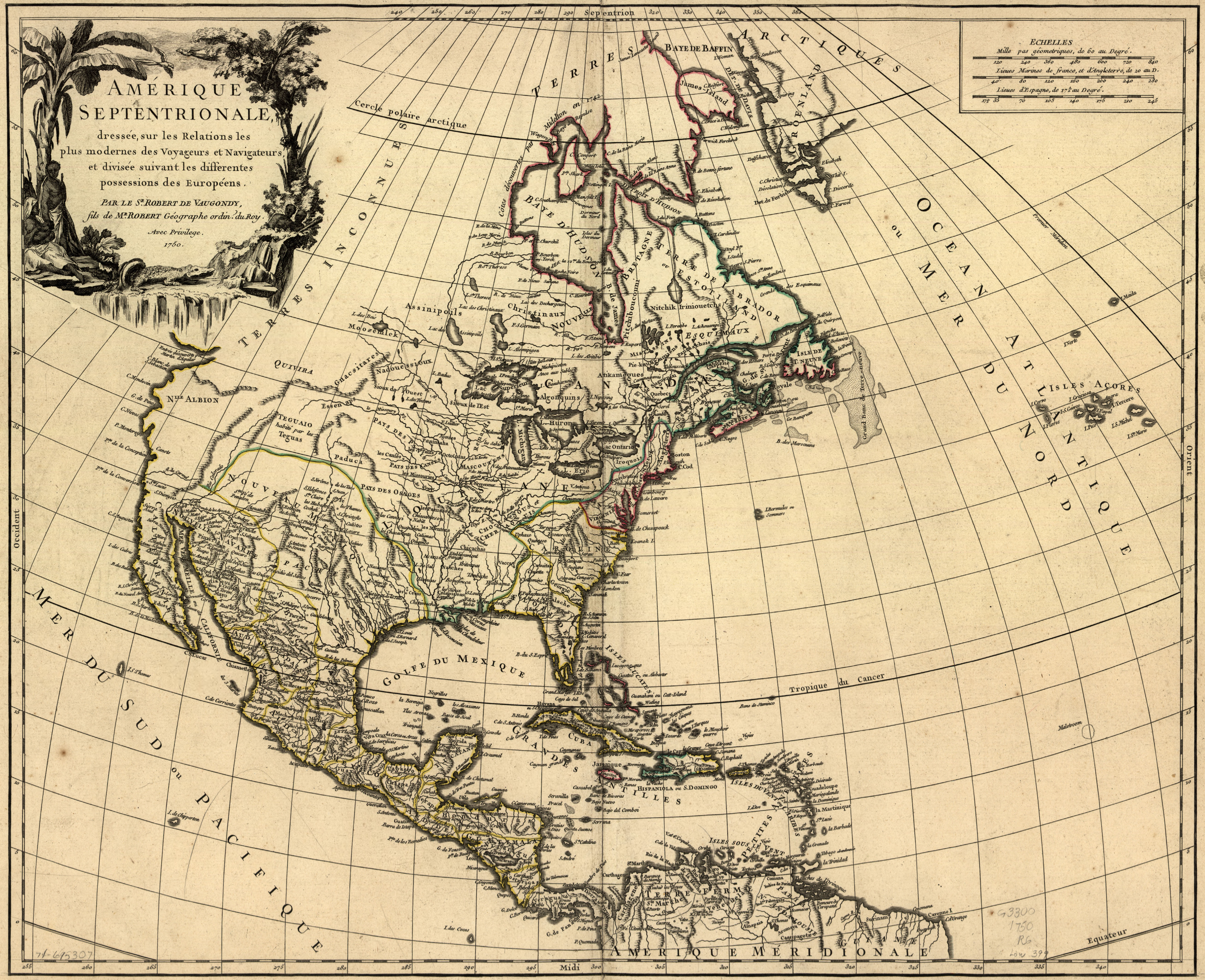 The following is the author's description of the photograph quoted directly from the photograph's Flickr page. "Amérique Septentrionale (Robert de Vaugondy 1750) Another important source of cartographic supposition concerning the northwest of the continent were the sketches and maps of the De l%u2019Isle family. Robert De Vaugondy almost directly copied his detail fro this region from this source. Although most of Manitoba is included in the area labeled %u201CTerres Inconnues%u201D there are other features associated with this Province shown on the map. The most important is the simplified R. Bourbon (Nelson), and Lac des Assinipoils (Lake Winnipeg). R. St. Therese (Hayes) and R. de Munck (Churchill) are here also, and all stem directly from the De l%u2019Isle versions of earlier map-makers. Lac des Assinipouls is located too far to the southeast of its proper position, and is unrelated to the Border Lakes network which stretches far to the west from Lake Superior. These features are a grossly simplified version of La Verendrye information, and the way in which all these details are inserted shows that De Vaugondy was more interested in filling space than correlating the geographic data even then available to a %u201CGeographe ordin%u2019 du Roy%u201D. (Warkentin and Ruggles. Historical Atlas of Manitoba. map 44, p. 114) ------------------- Amérique septentrionale, dressée sur les relations les plus modernes des voyageurs et navigateurs, et divisée suivant les differentes possessions des européens. Par le Sr. Robert de Vaugondy, 1750. Drawn by Robert de Vaugondy. Printed in black ink, with coloured portions. In Robert de Vaugondy. Atlas Universel. Paris: 1757. Map No. 97. Image Source: Library of Congress American Memory Project "